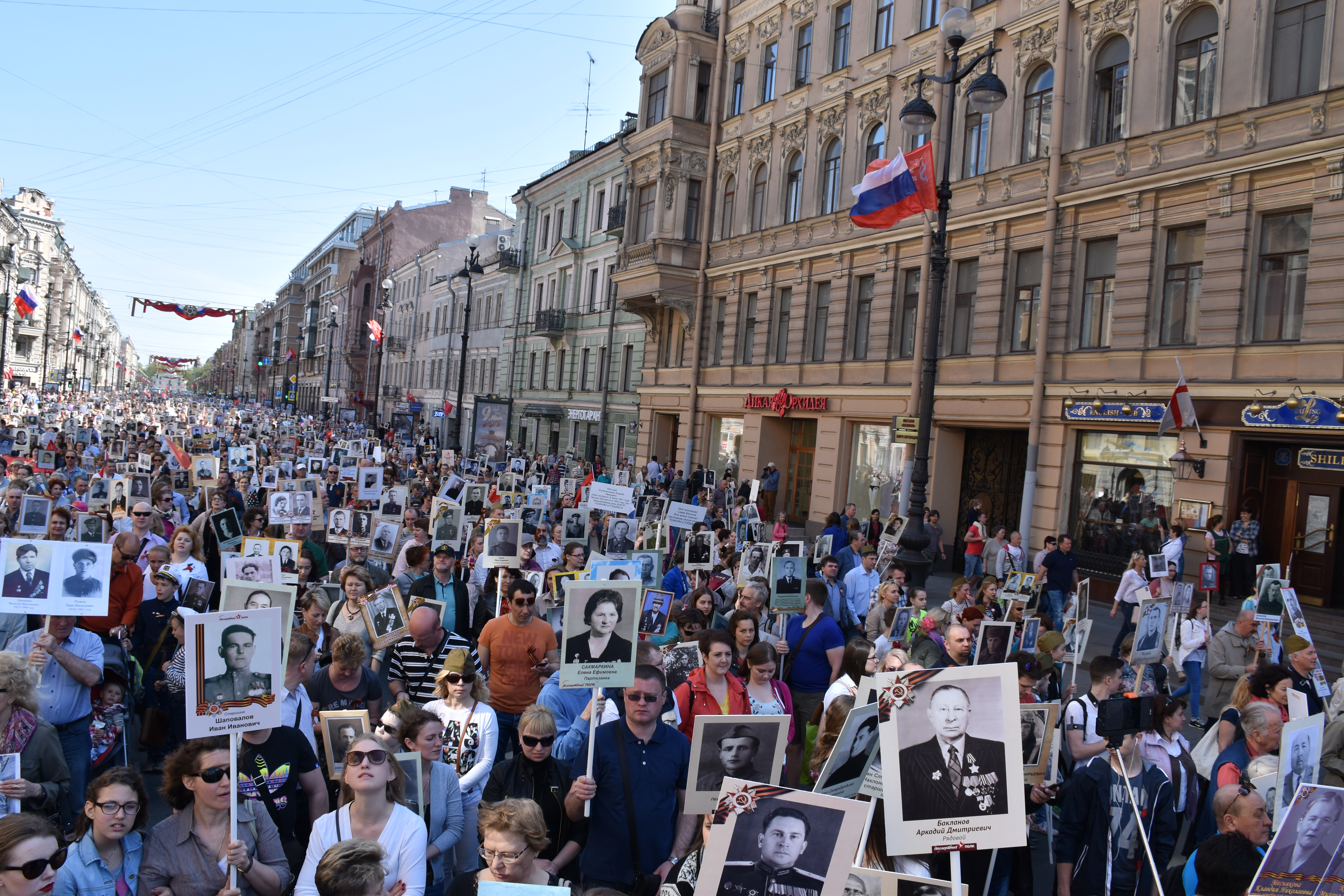 Immortal Regiment in Saint Petersburg. 9th of May 2016.